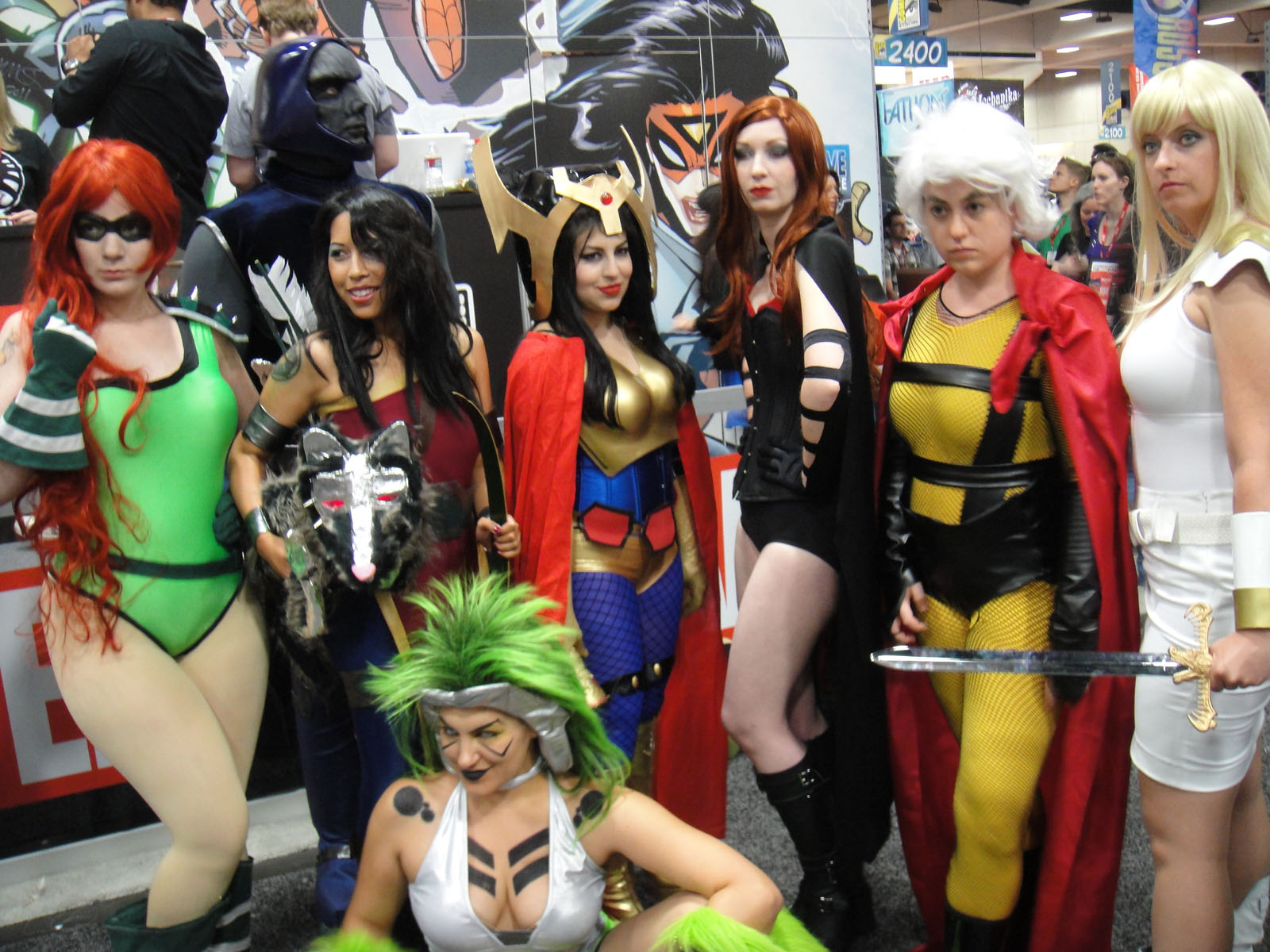 Cosplay of Big Barda and the Female Furies (from DC Comics) at San Diego Comic-Con 2011. DC characters hanging outside the Marvel booth